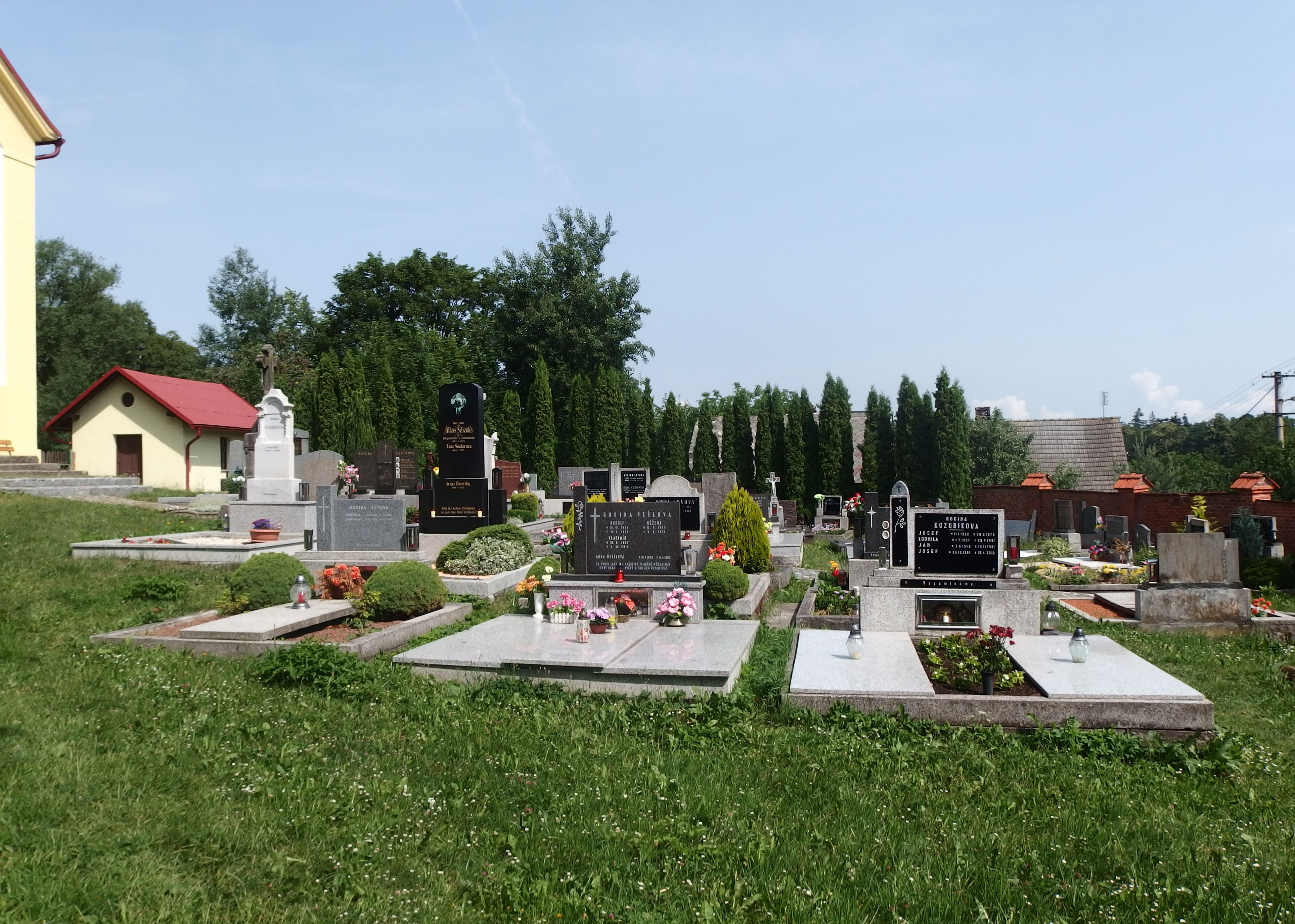 Odry, Nový Jičín District, part Dobešov, Czech Republic.